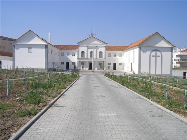 The Convent of the Sacred Heart of Jesus (also known as Carmel of Beja) is a monastery of Carmelite nuns of the Ancient Observance situated in Beja, Portugal.